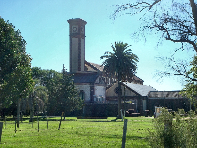 The old water purification plant in Aguas Corrients, Canelones, Uruguay.